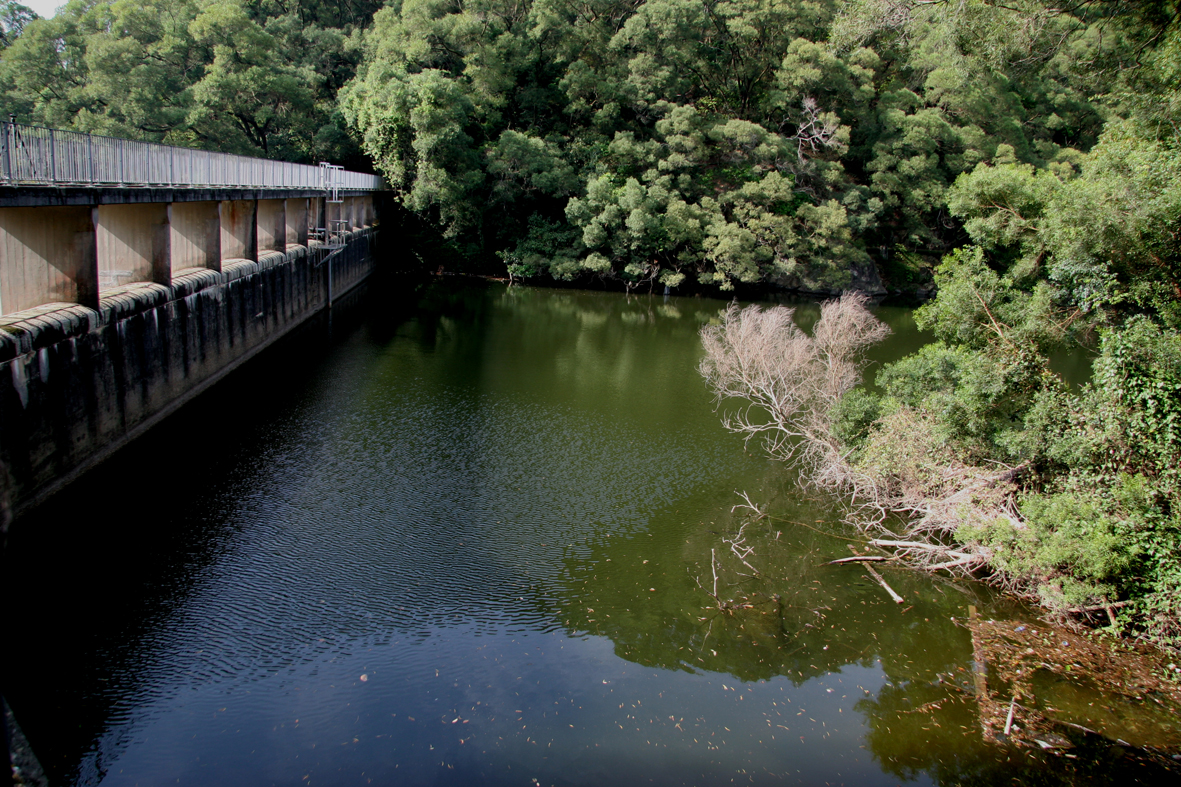 Tsing Tam Lower Irrigation Reservoir